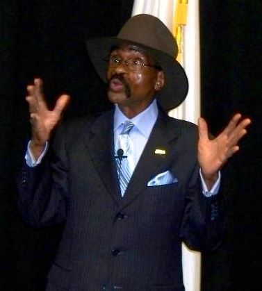 Former middleweight boxer Rubin Carter; falsely convicted of murder; subject of a Bob Dylan song. Carter spoke of his experience at Bunker Hill Community College, Boston, Mass. on March 24, 2011. (revision of the original text)